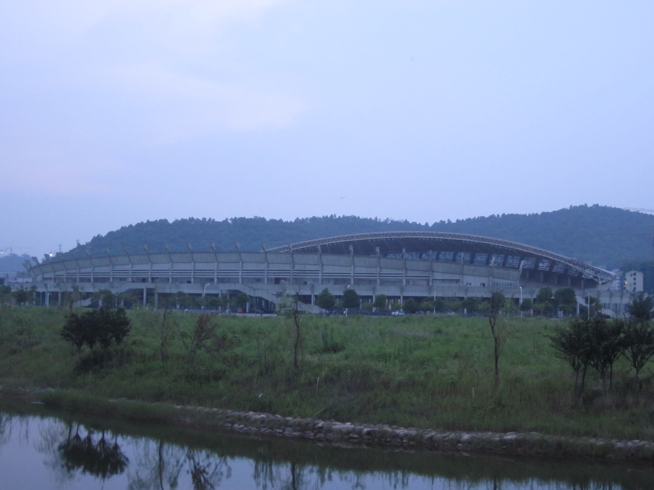 Central South University (CSU) located in Changsha, a historic and cultural city in Hunan province, central south of the People's Republic of China.